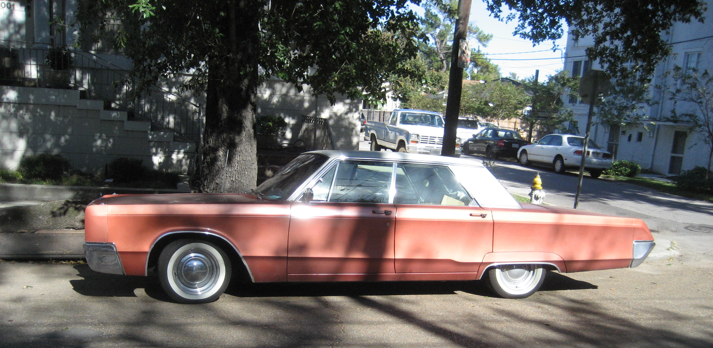 Carrollton Riverbend neighborhood of New Orleans. 1967 Chrysler 300 on St. Charles Avenue.